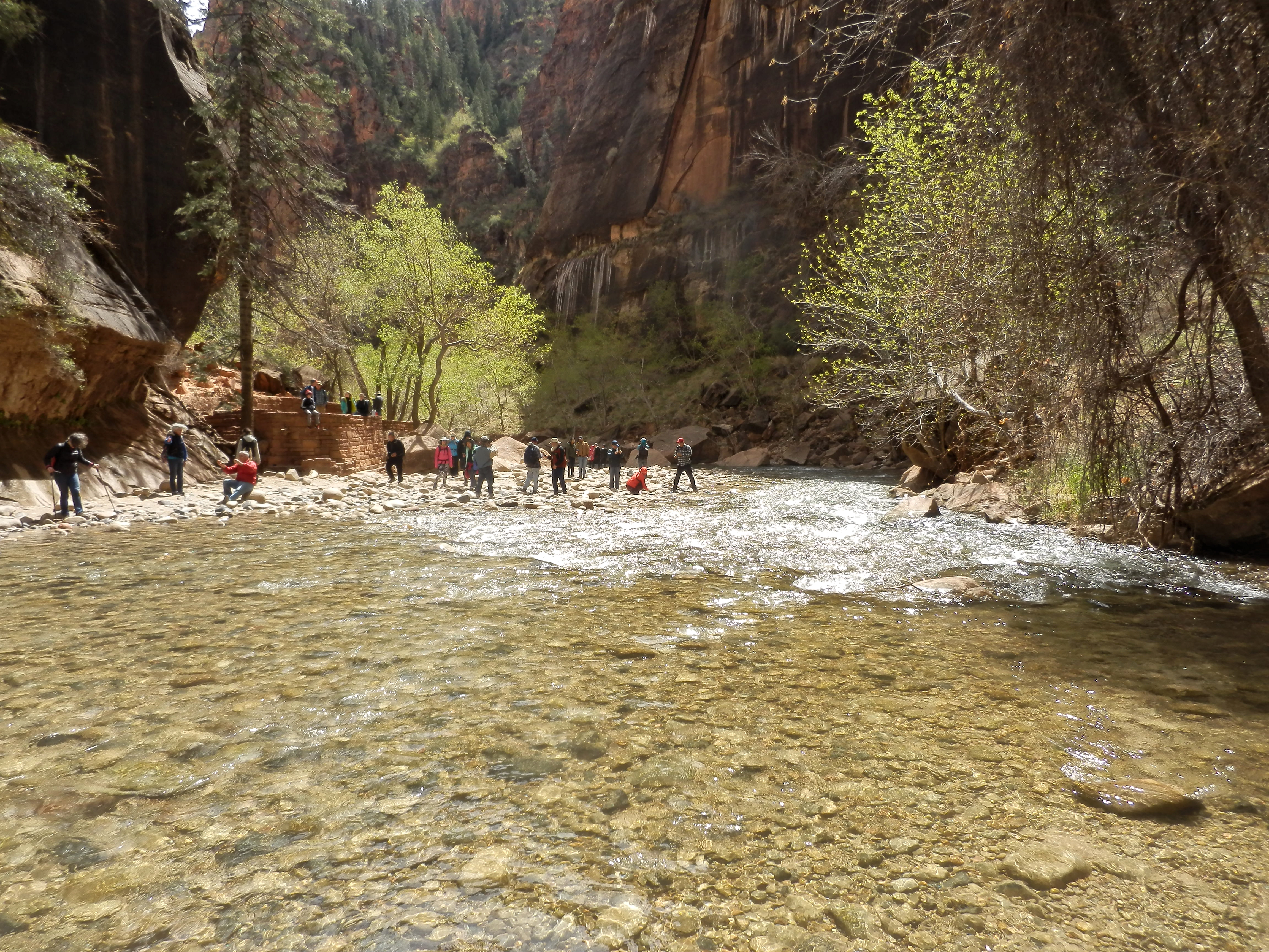 Zion National Park - Narrows